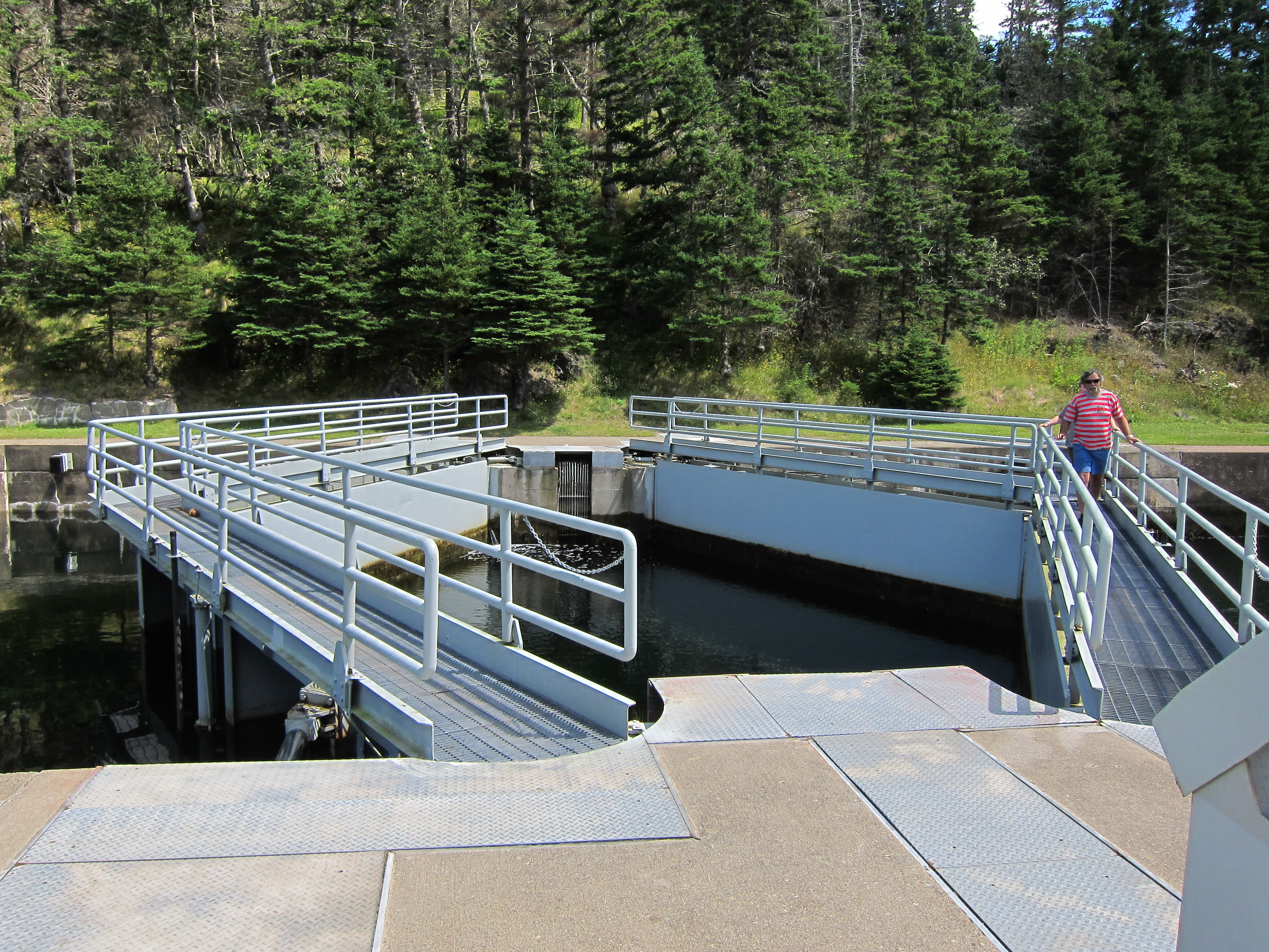 The St. Peters Canal is a small shipping canal located in eastern Canada on Cape Breton Island. It crosses an isthmus in the village of St. Peter's, Nova Scotia which connects St. Peters Inlet of Bras d'Or Lake to the north with St. Peters Bay of the Atlantic Ocean to the south.